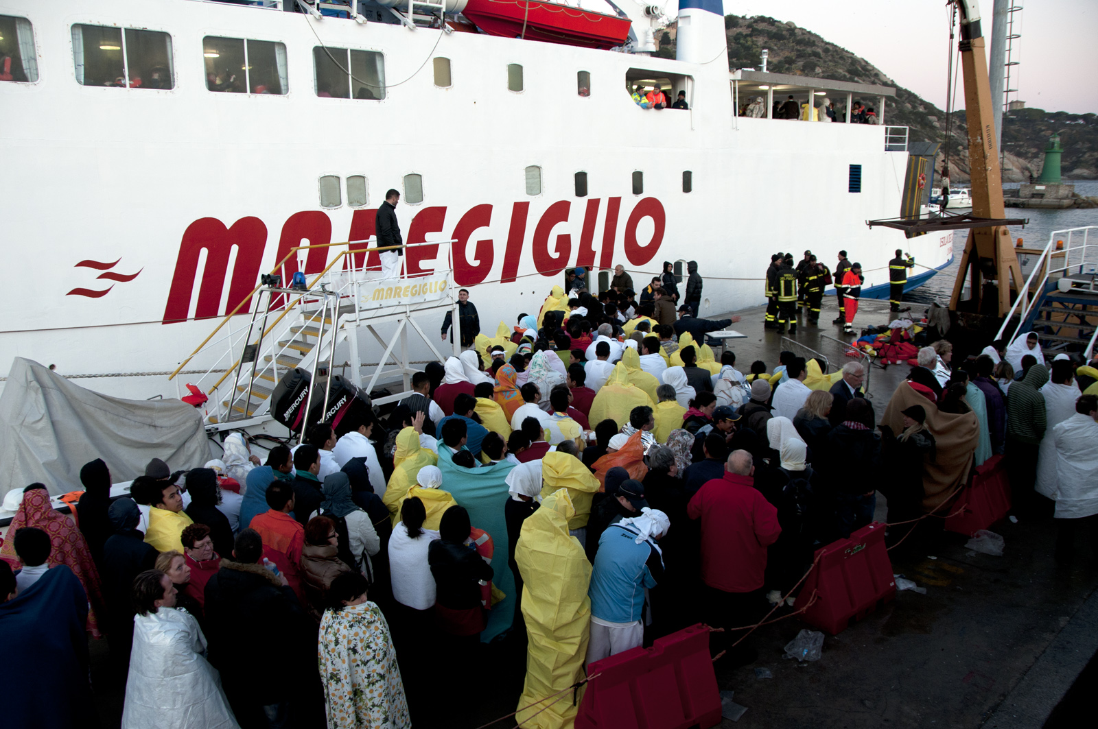 Collision of Costa Concordia - Photo of more survivors, from the shipwreck, who are waiting to board the next ferry from Giglio Island to Porto Santo Stefano on mainland Italy.